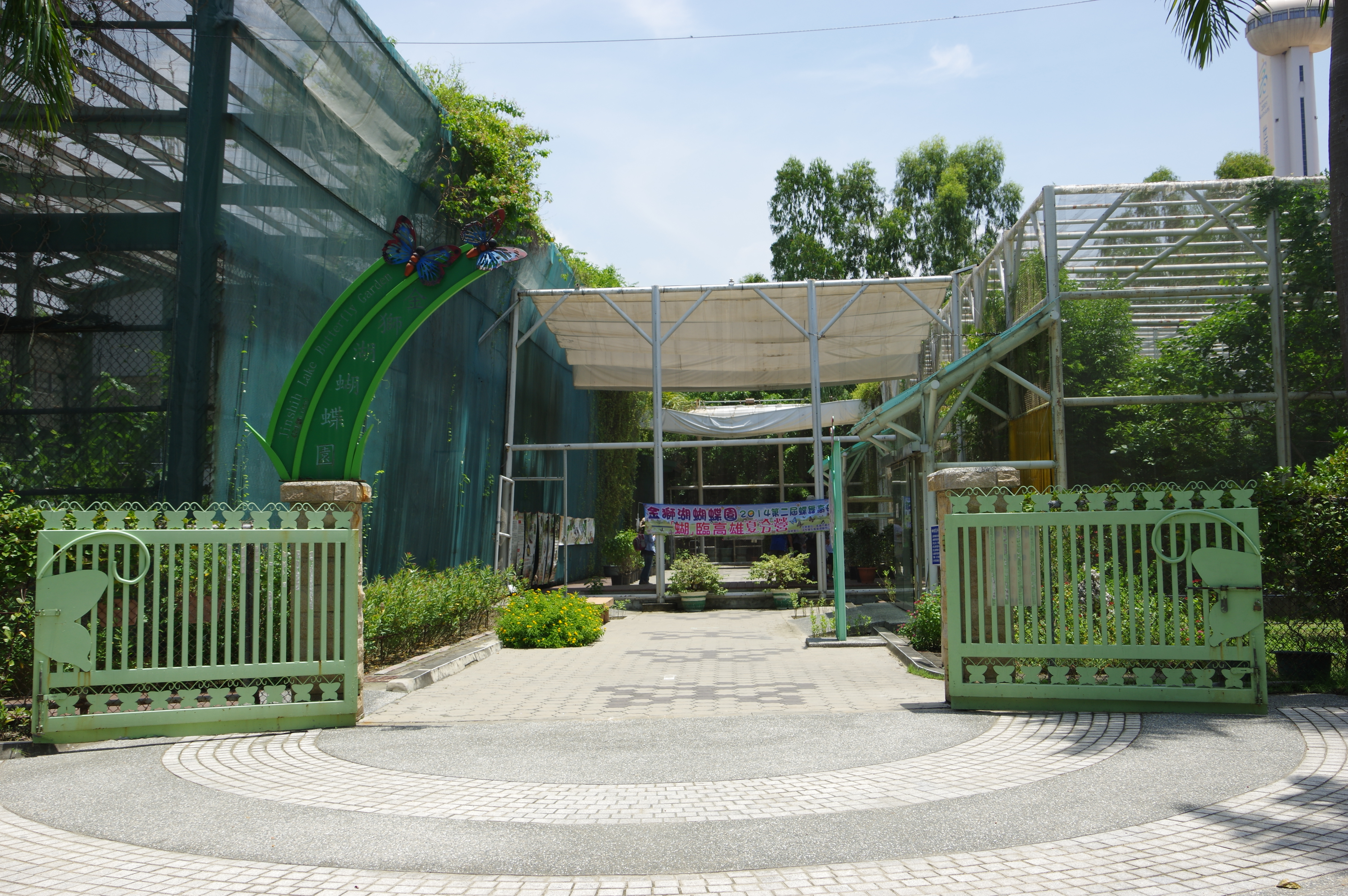 Butterfly Garden,Jinshi Lake,Kaohsiung,Taiwan